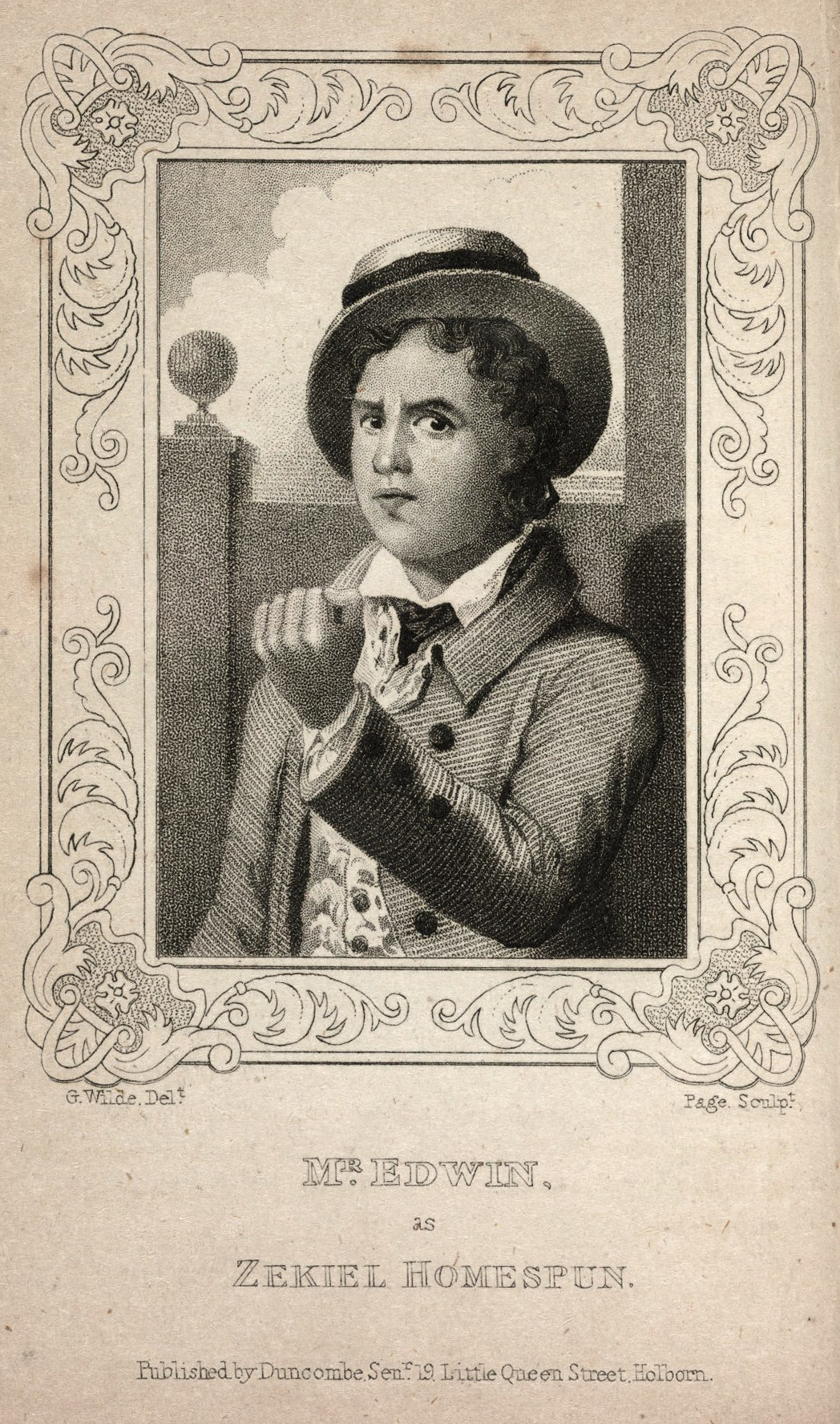 "Mr. Edwin, as Zekiel Homespun", an illustration from Oxberry’s Dramatic biography and histrionic anecdotes, London: 1825-1826, by William Oxberry (1784-1824). Thr 428.25, Harvard Theatre Collection, Houghton Library, Harvard University